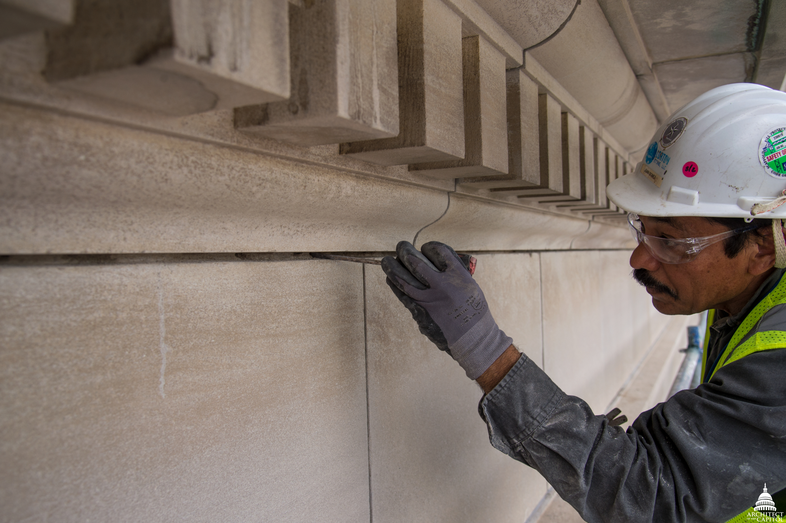 Repointing continues on the Cannon Building's stone facade. Phase 1 of the Cannon Renewal Project began in January 2017 and is scheduled to be complete in November 2018. The entire west side of the building, from the basement to the fifth floor, is closed. Work includes demolishing and rebuilding the fifth floor, conserving the exterior stonework and rehabilitating the individual office suites. Full project details at